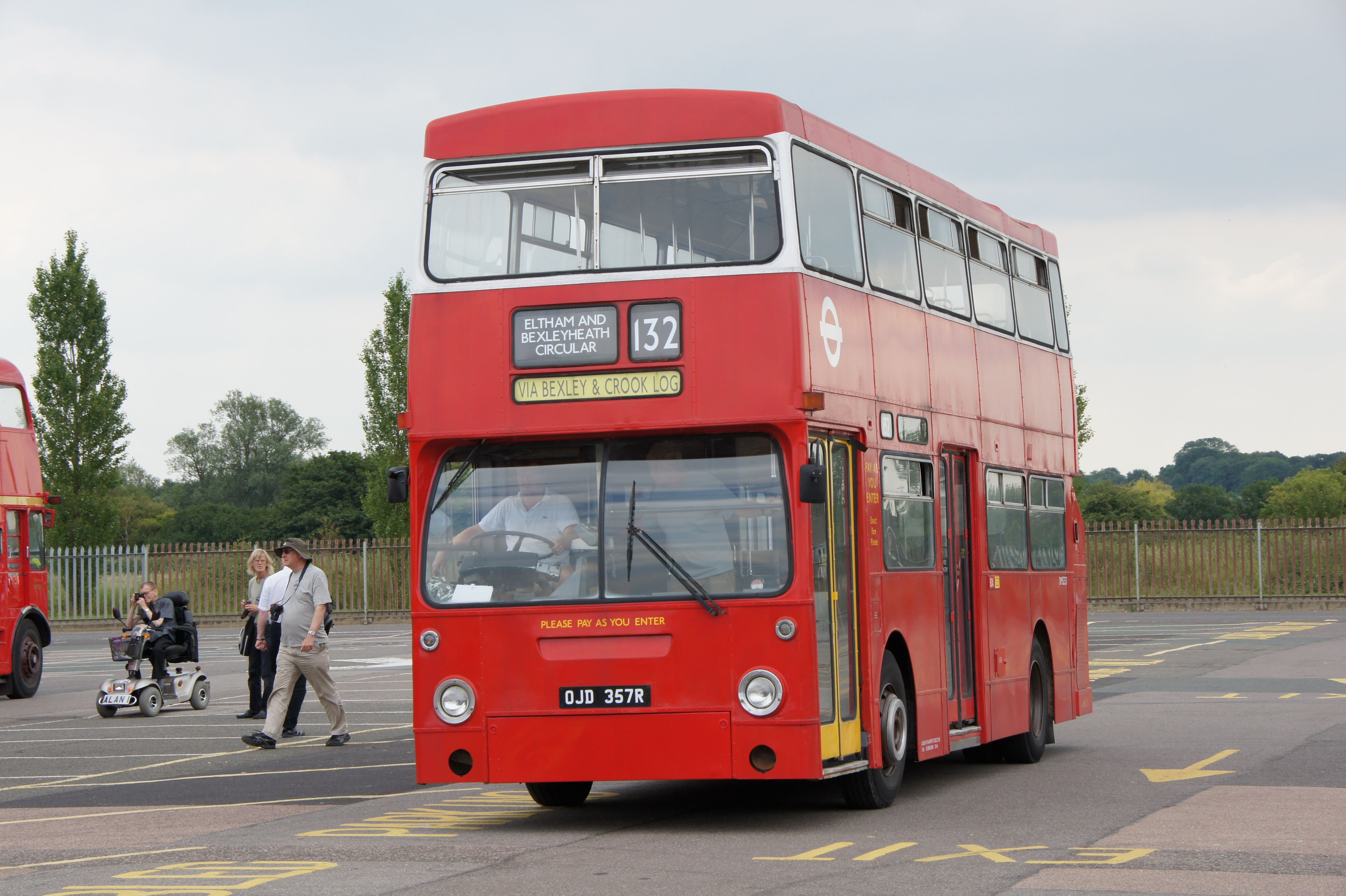 2357-OJD357R 030711 CPS